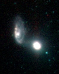 Image of the Arp91 in Infrared at 3.6 (blue), 4.x (green) and 5.6 (red) µm. The image has been made by myself (Médéric Boquien) from the public image archive of the Spitzer Space Telescope (courtesy NASA/JPL-Caltech). Color rendering is done by by Aladin-software (2000A&AS..143...33B.)